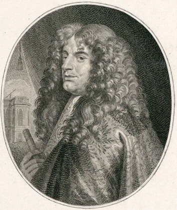 Also known as Jean-Dominique Cassini. or in the article Giovanni Domenico Cassini